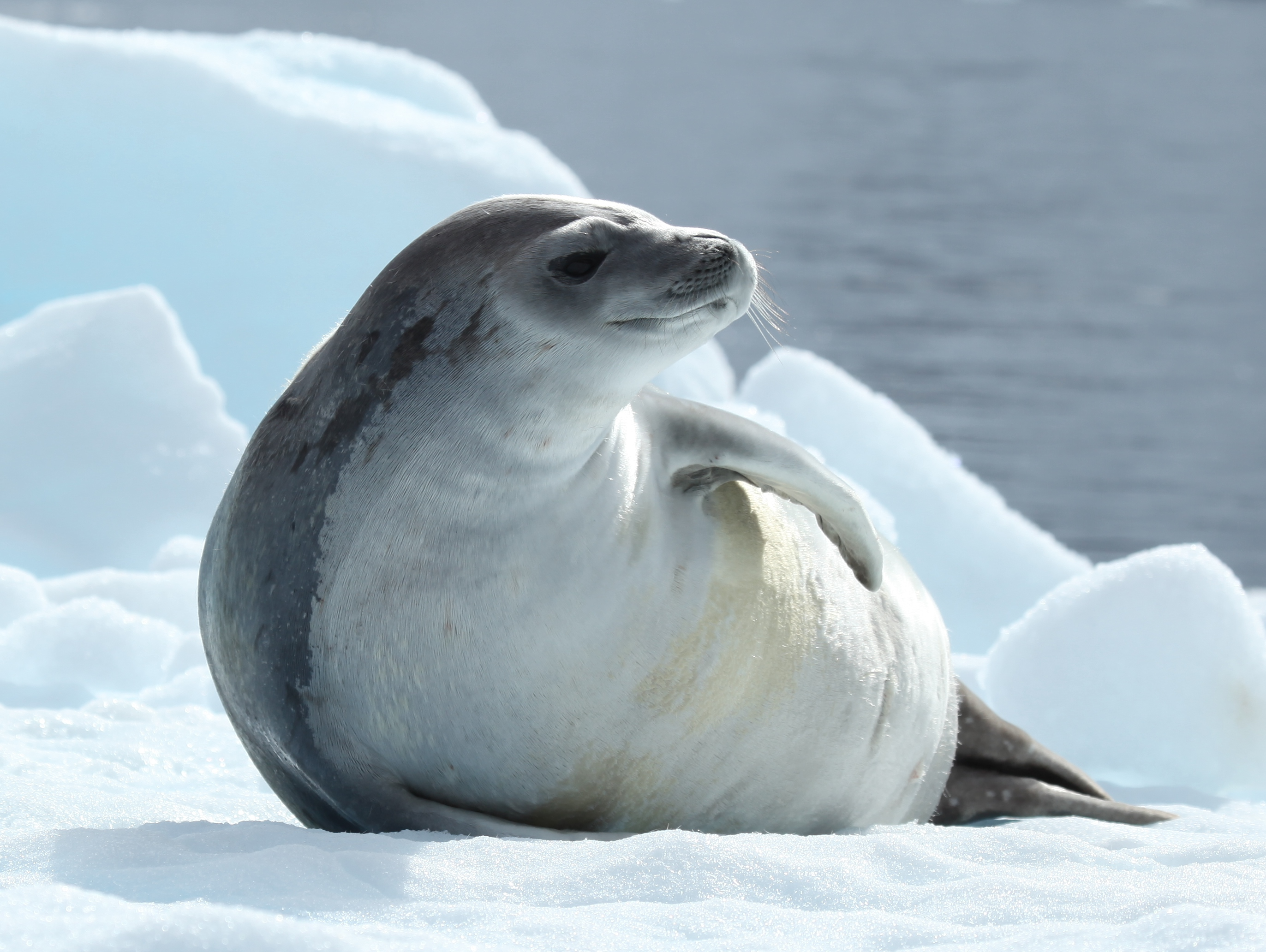 Crabeater Seal in Pléneau Bay, Antarctica